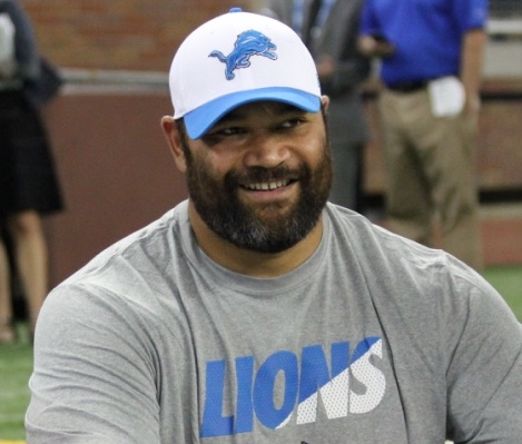 Detroit Lions defensive tackle, Haloti Ngata, participating in charity event, Play Like a Lion Experience 2015.